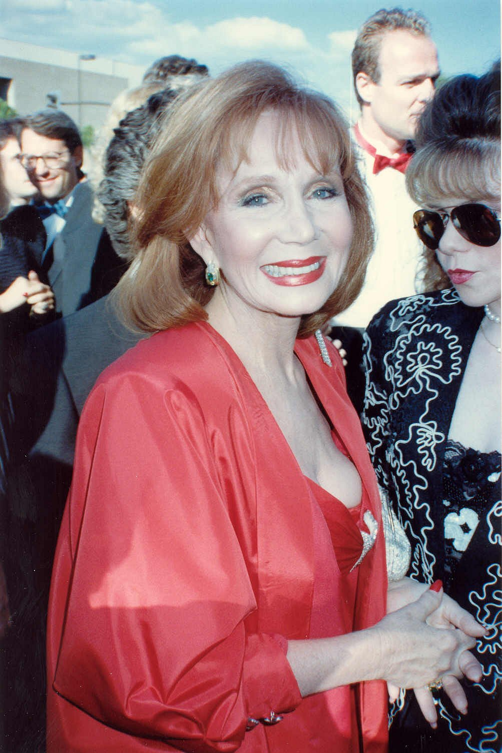 Katherine Helmond at the 41st Emmy Awards 9/17/89